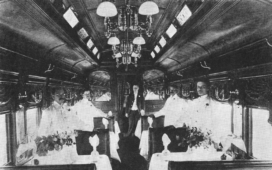 The dining car "Queen" on the Royal Blue of the Baltimore and Ohio Railroad, as advertised in 1895.